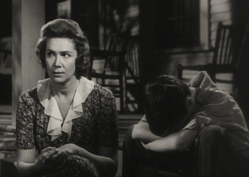 Rosemary Murphy & Phillip Alford in To Kill a Mockingbird - trailer (cropped screenshot)